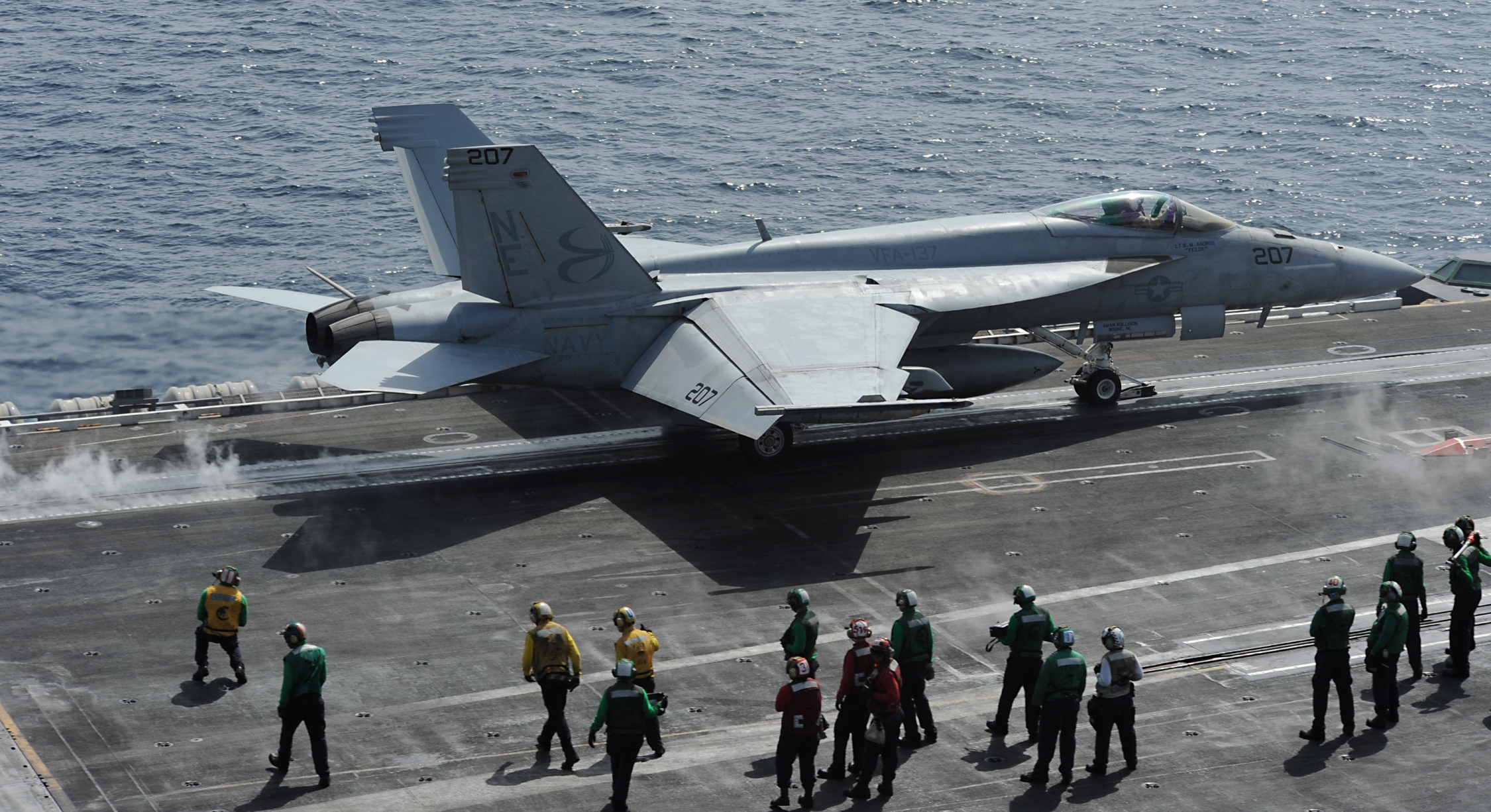 ARABIAN SEA (Feb. 16, 2012) An F/A-18E Super Hornet assigned to the Kestrels of Strike Fighter Squadron (VFA) 137 launches from the flight deck of the Nimitz-class aircraft carrier USS Abraham Lincoln (CVN 72). Abraham Lincoln is deployed to the U.S. 5th Fleet area of responsibility conducting maritime security operations, theater security cooperation efforts and support missions as part of Operation Enduring Freedom. (U.S. Navy photo by Mass Communication Specialist 2nd Class Jonathan P. Idle/Released)